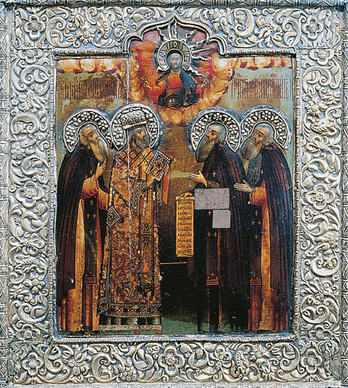 Saints of the Solovets islands: Zosimas, Sabbatius, Herman, Philip.